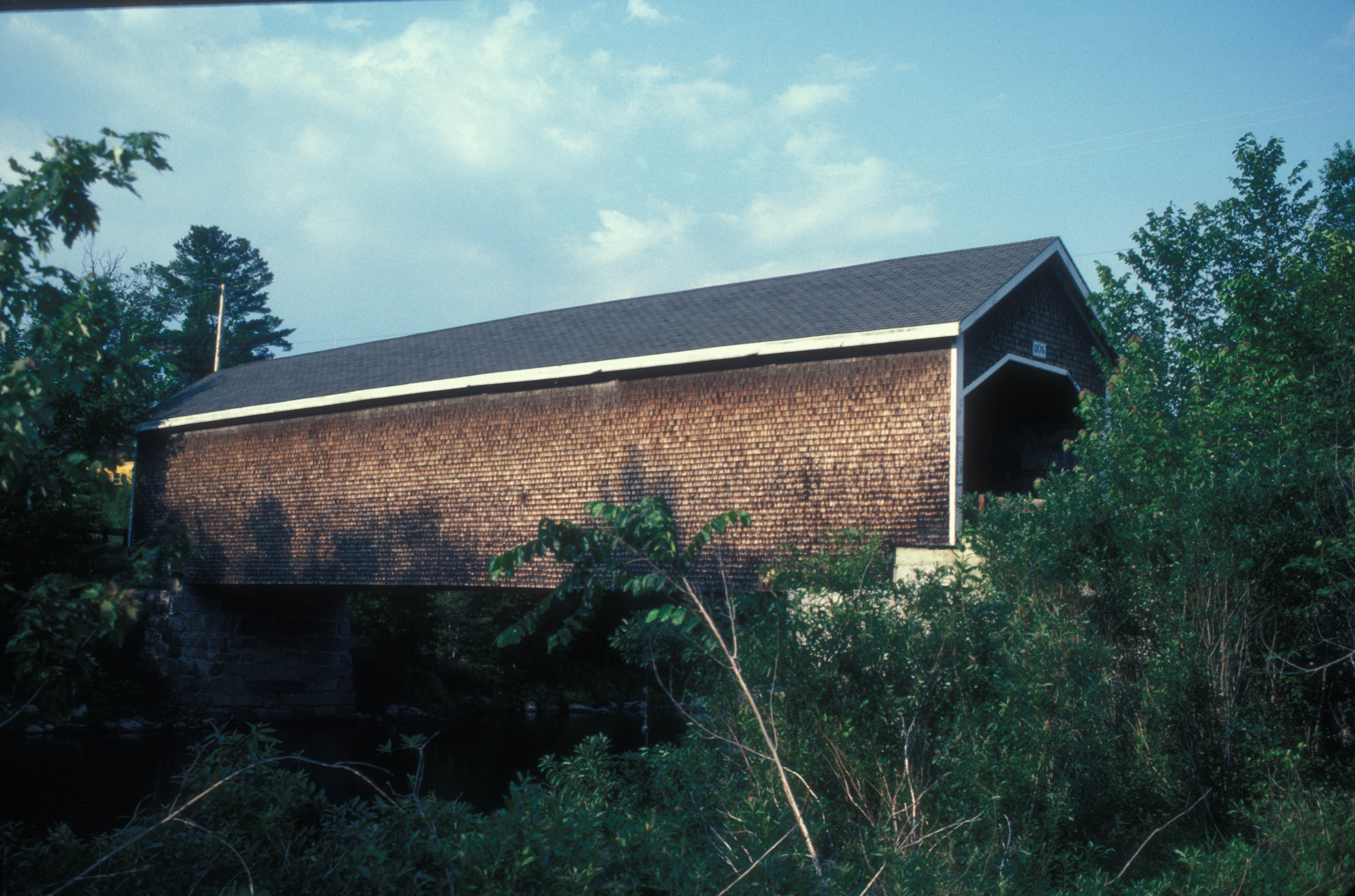 1876 86' LONG OVER KENDUSKEAG STREAM